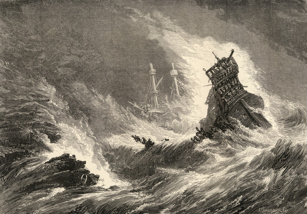 A ship of the Spanish Armada, wrecked in the storm - illustration from ‘Spanish Pictures’ by the Rev. Samuel Manning, 1870 © Bridgeman Art Library / Private Collection / Ken Welsh